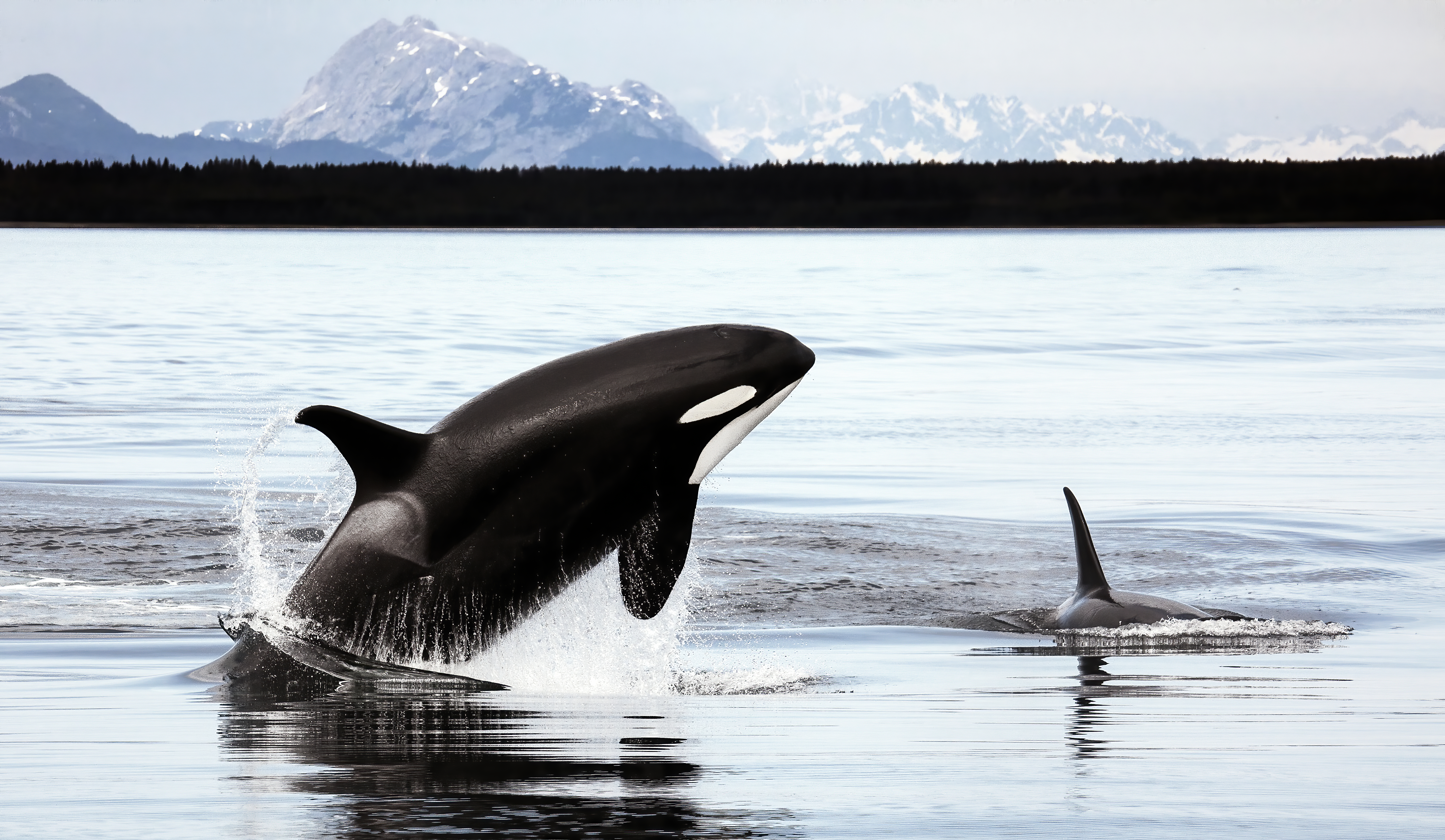 Killer whale (Orcinus orca) swimming in Alaska